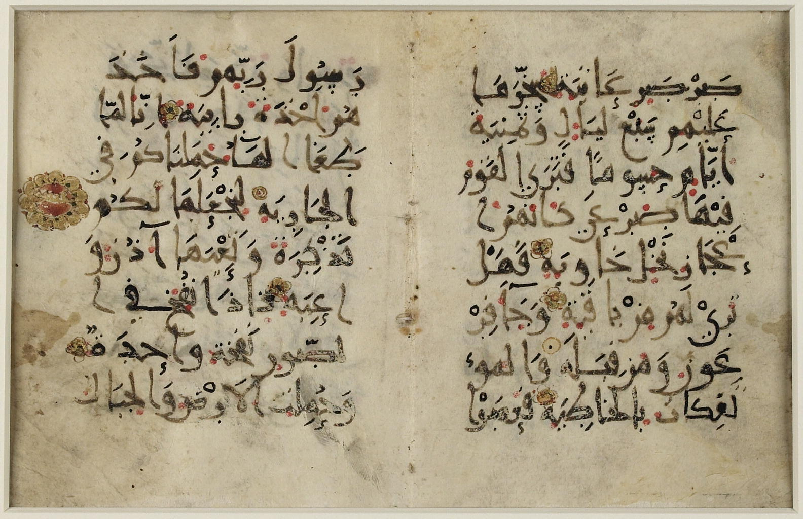 This calligraphic fragment includes, on the left hand side of the bifolio, the illuminated title and verses 6-14 of the 69th chapter of the Qur'an entitled al-Haqqah (The Truth). The text is written in Kufi (New Syle III). Red dots indicate vocalization, while vowel signs and orthoepics (pronunciation marks) were added in black ink at a later date. One dot below the letter ra (r) serves to differentiate it from the zayn (z). The script, vocalization marks, and vertical format show some of the advances in Kufi calligraphy and Qur'an production during the 10th century.